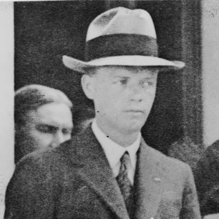 Col. Chas. Lindbergh and his mother photographed with the President and Mrs. Coolidge Lindbergh, Charles A. (Charles Augustus), 1902-1974.